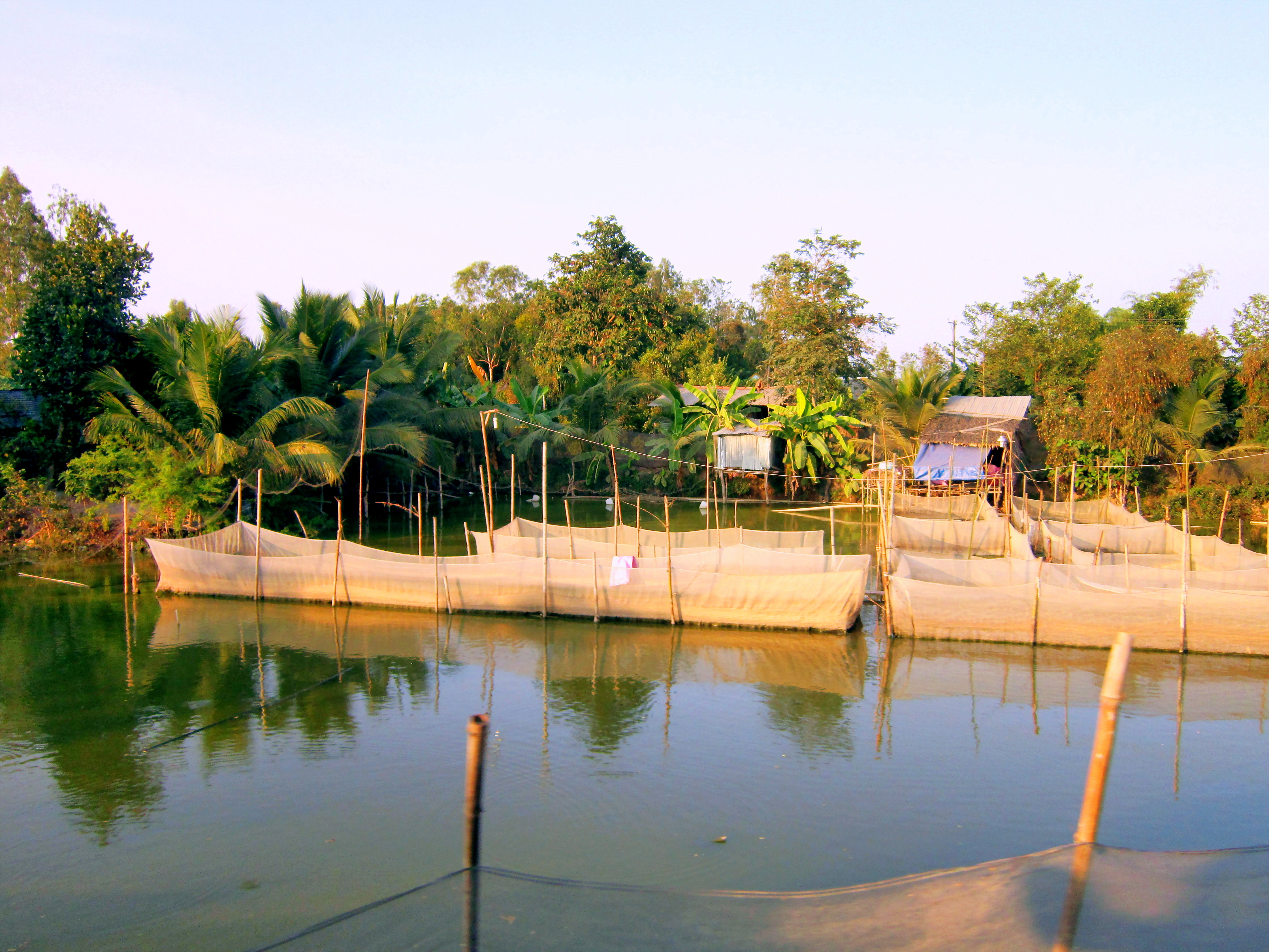 A fish hatchery establishment in Doc Binh Kieu is a commune in Thap Muoi district, Dong Thap province, Vietnam.